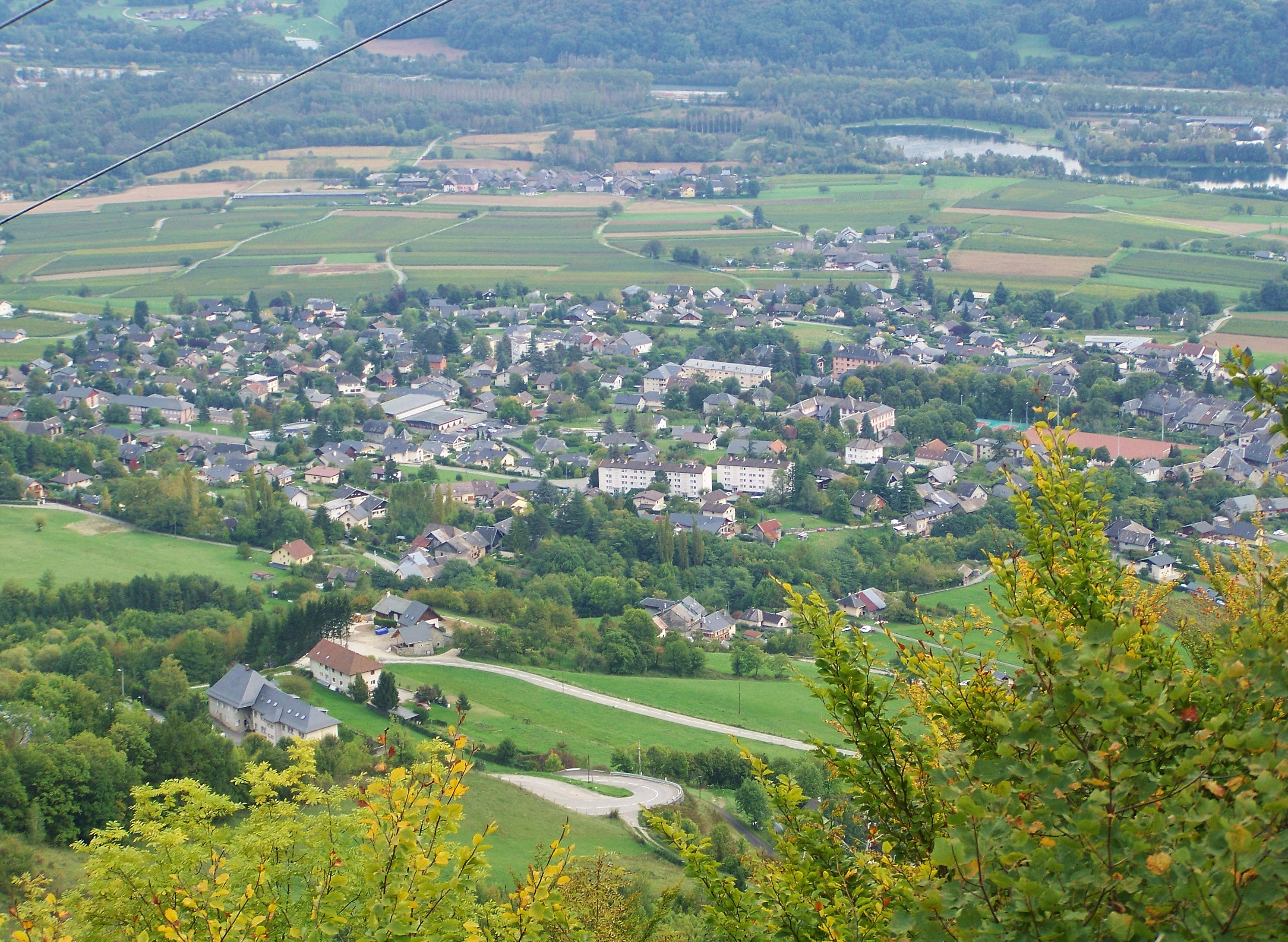 Sight of Saint-Pierre-d'Albigny, from the road the col du Frêne pass, in Savoie, France.